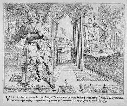 Odysseus with the aged Laertes